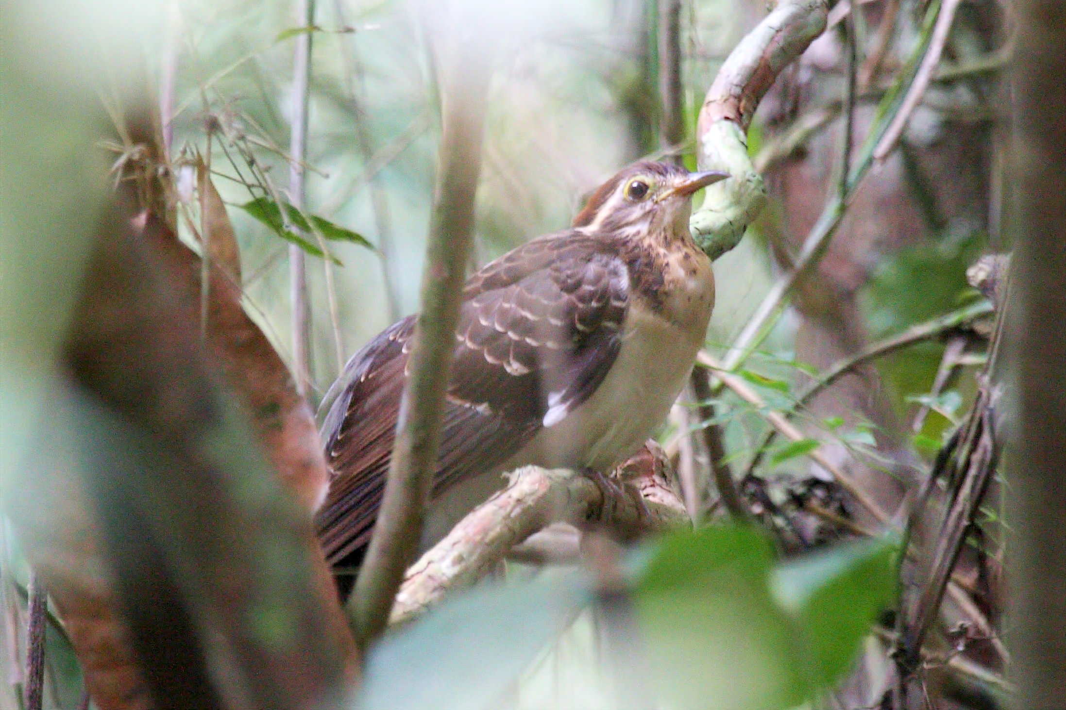 Pheasant Cuckoo (Dromococcyx phasianellus). Photographed at Parque National Saberania, Pipeline Road, Gamboa, Panama.